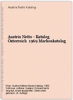 Austria Netto Katalog (cover), edition of 1969